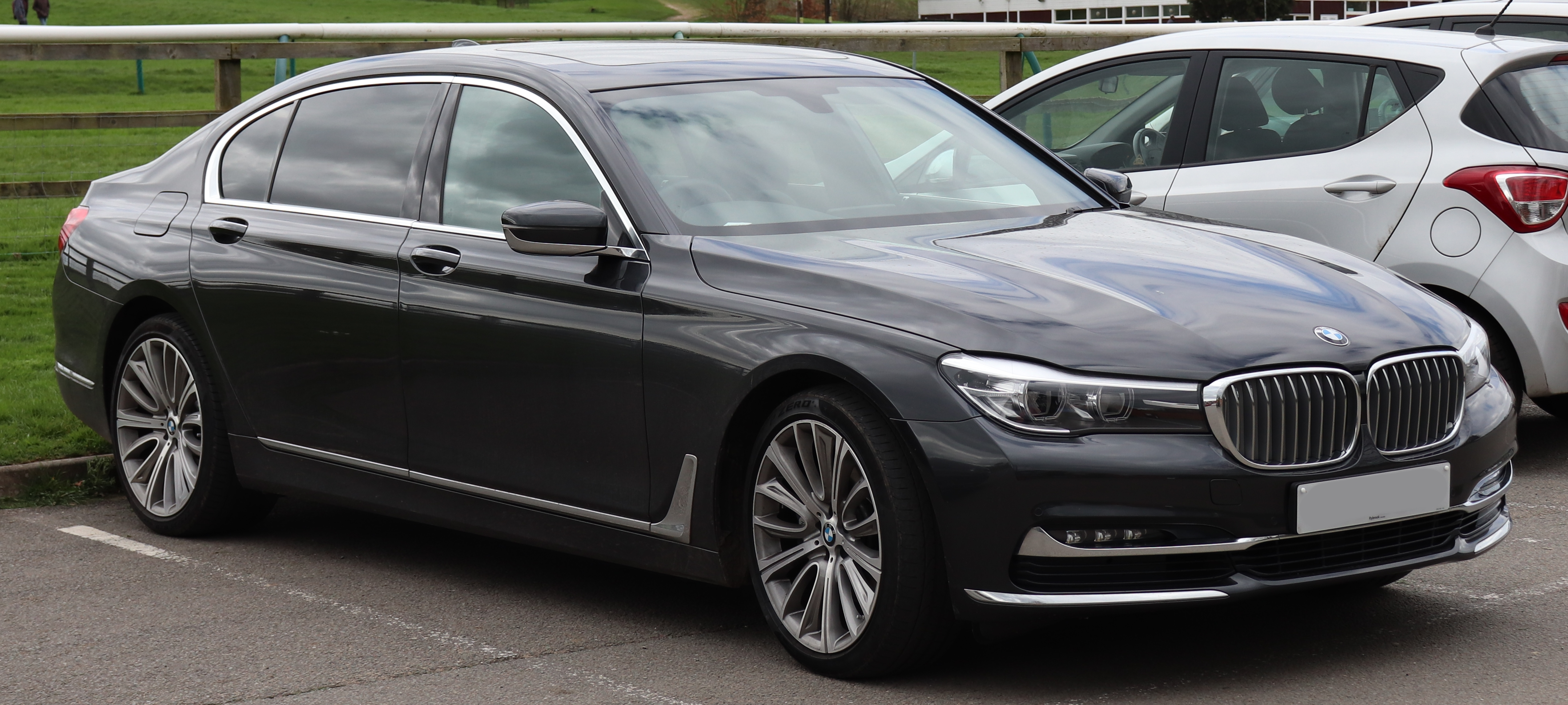 2016 BMW 730L Diesel Automatic 3.0 Taken in Warwick